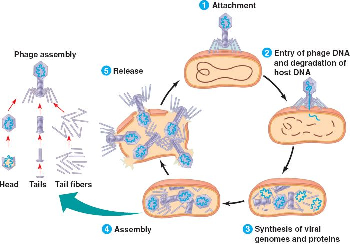 Phage Injection and Replication